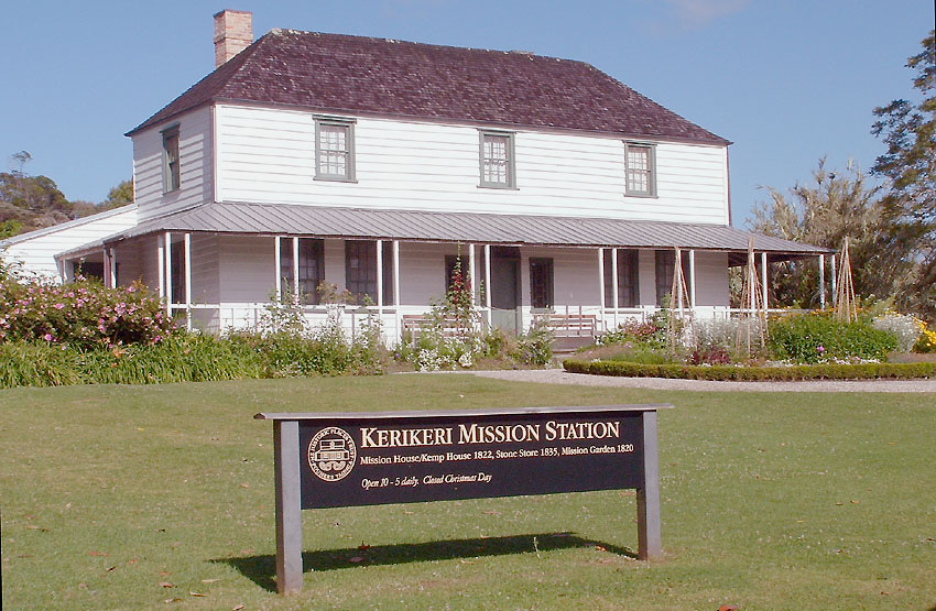 The Mission House at Kerikeri, New Zealand. Photo taken December 1 2006 by User:Moriori and released PD